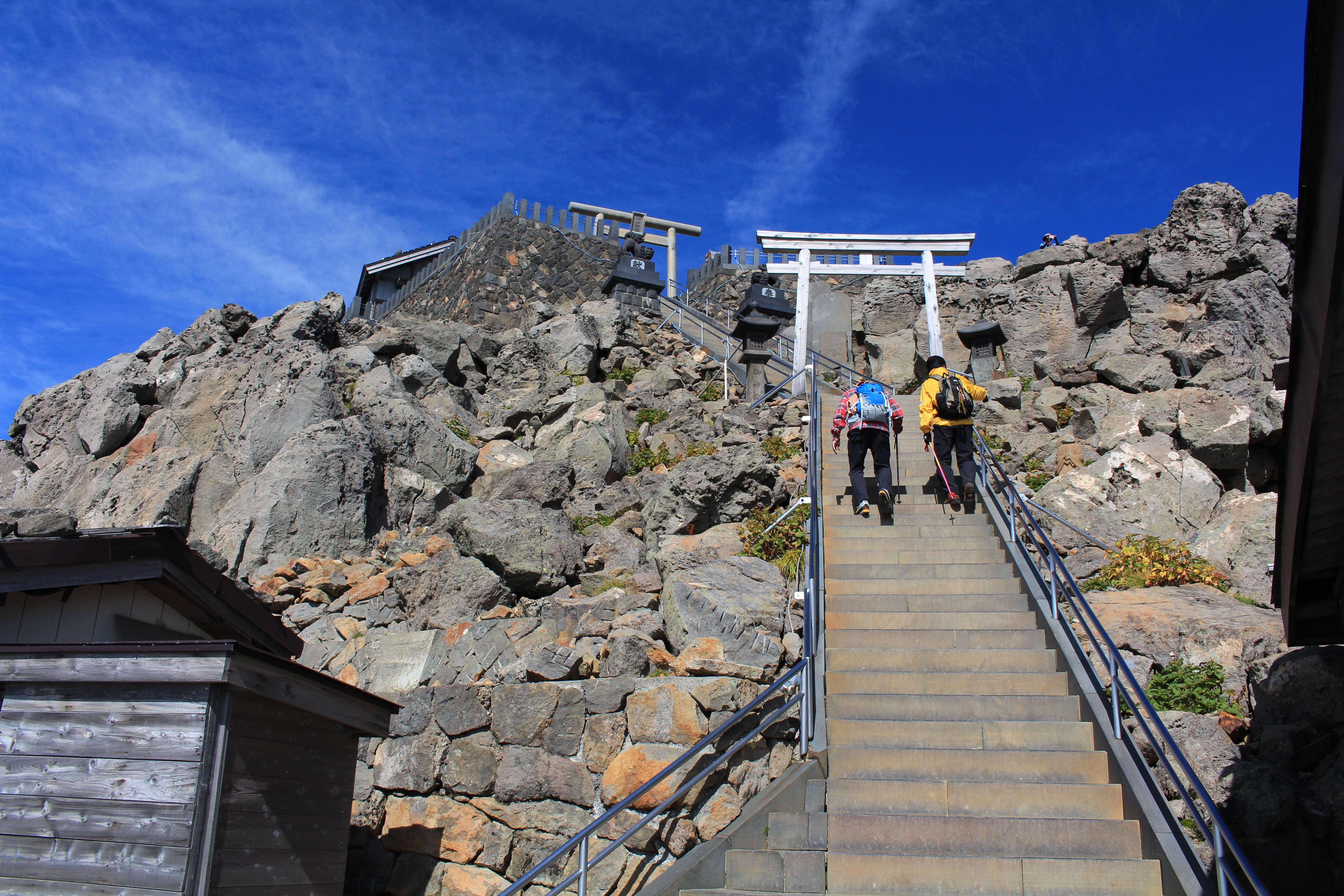 Sandō and Trii of Mount Ontake Shinto shrines on the peak of Mount Ontake, Nagano prefecture, Japan.